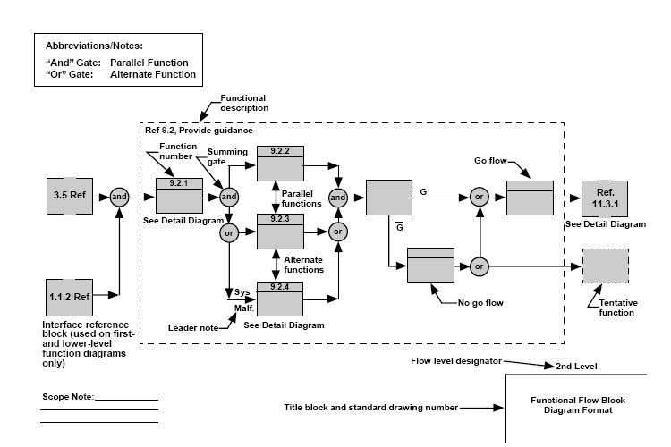 Image extracted from Systems Engineering Fundamentals. Defense Acquisition University Press, 2001